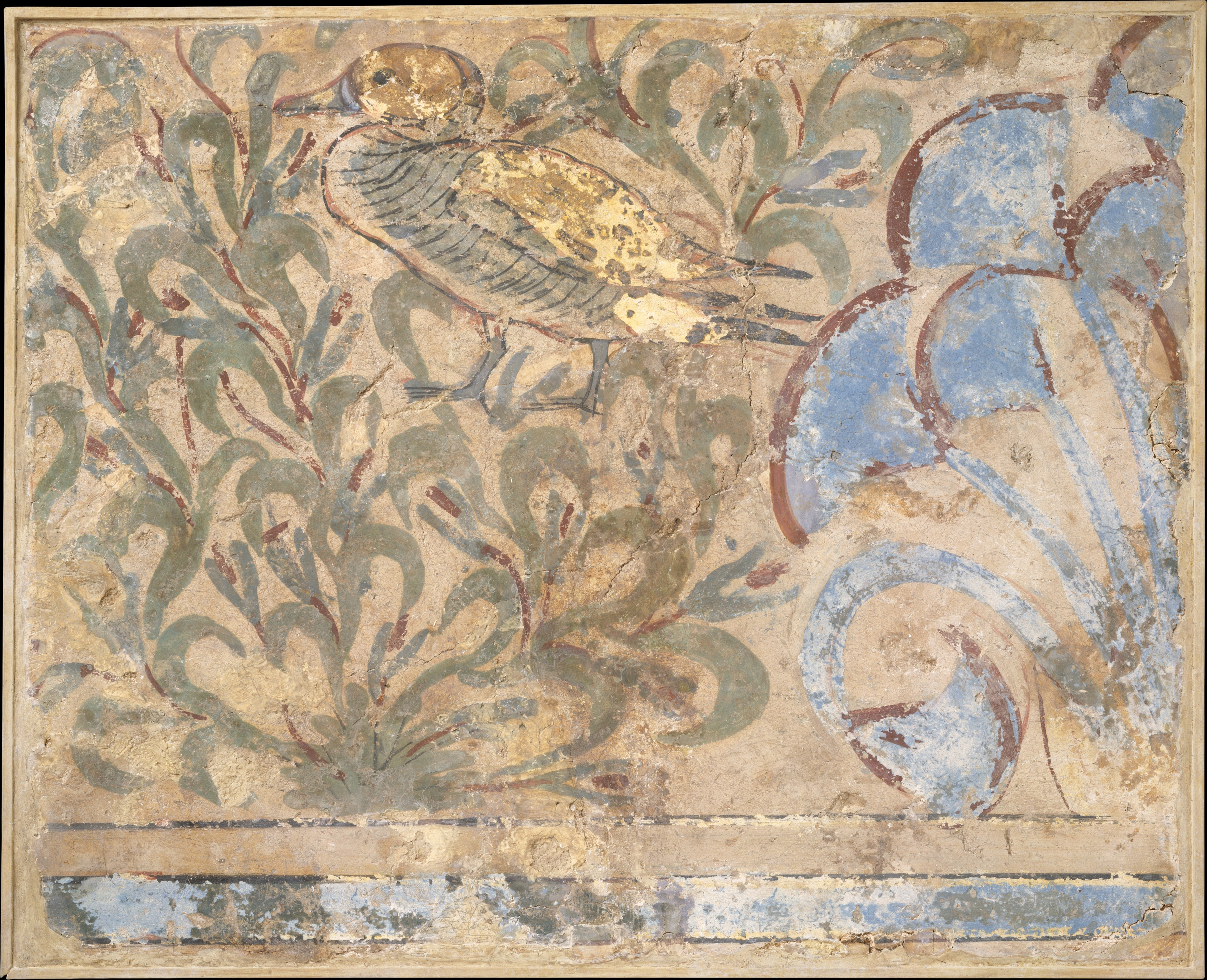 Pavement Fragment